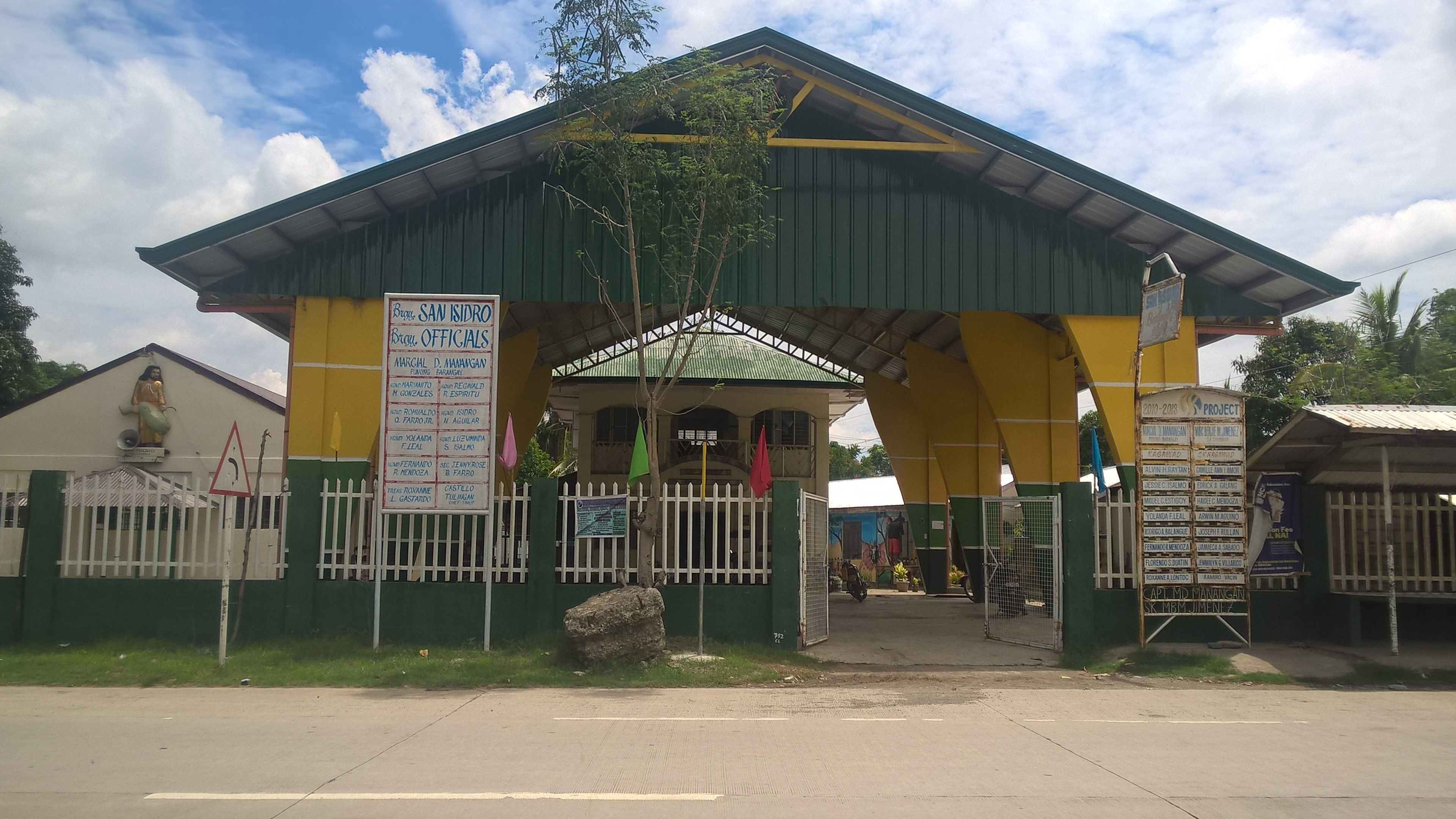 The gymnasium and barangay hall of San Isidro.